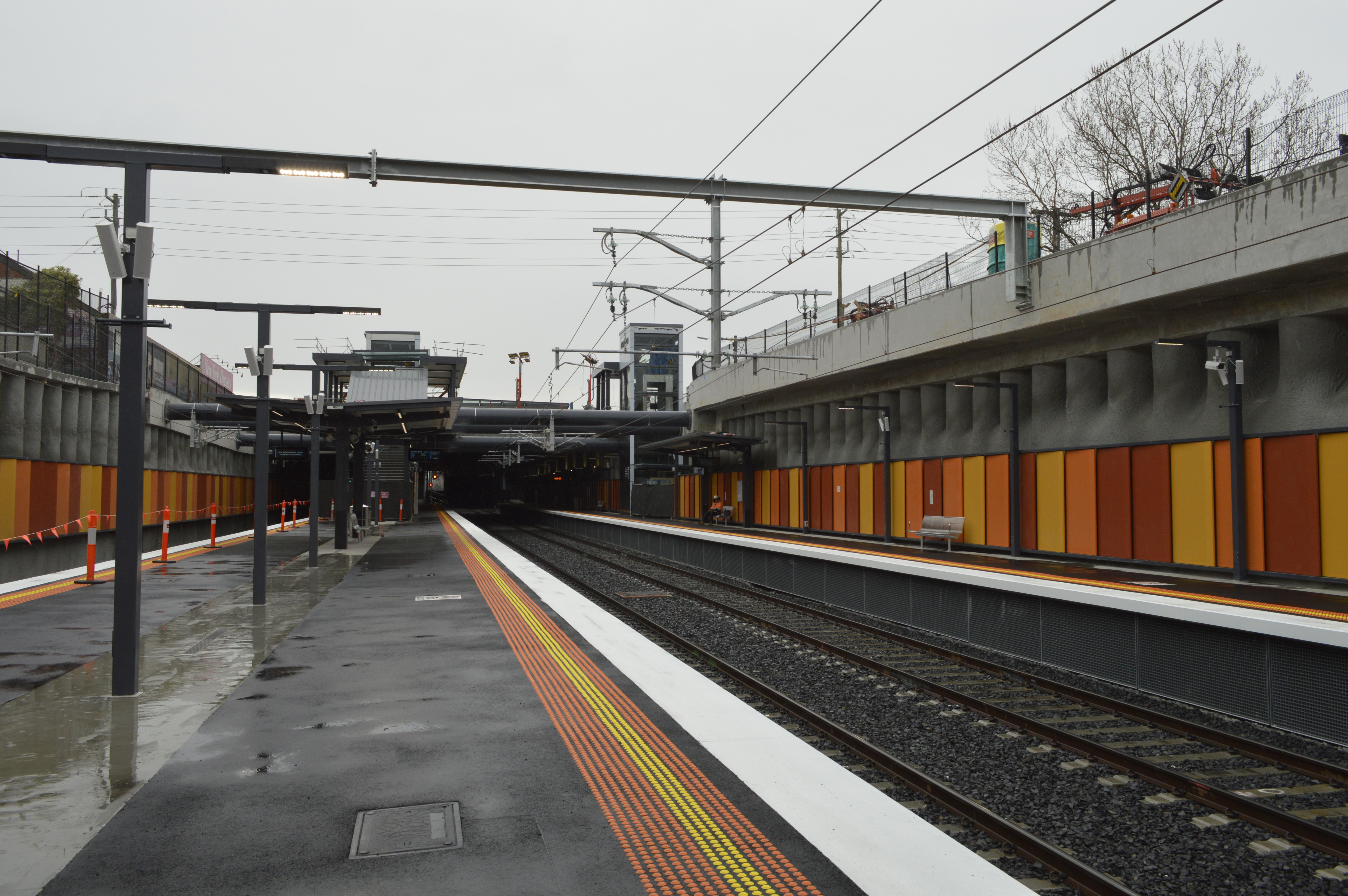 Looking north towards Melbourne in August 2016.